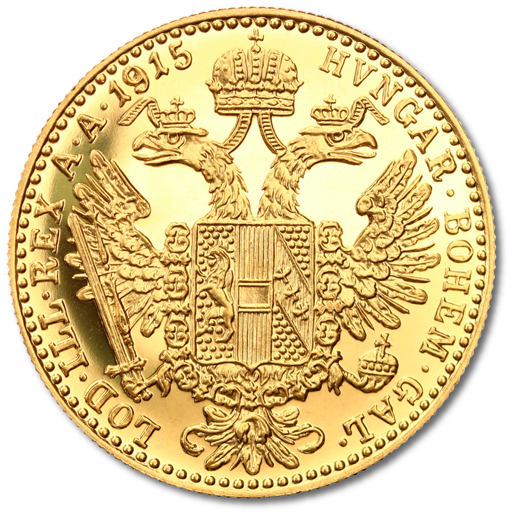 Reverse of the 1 Ducat new edition gold coin.